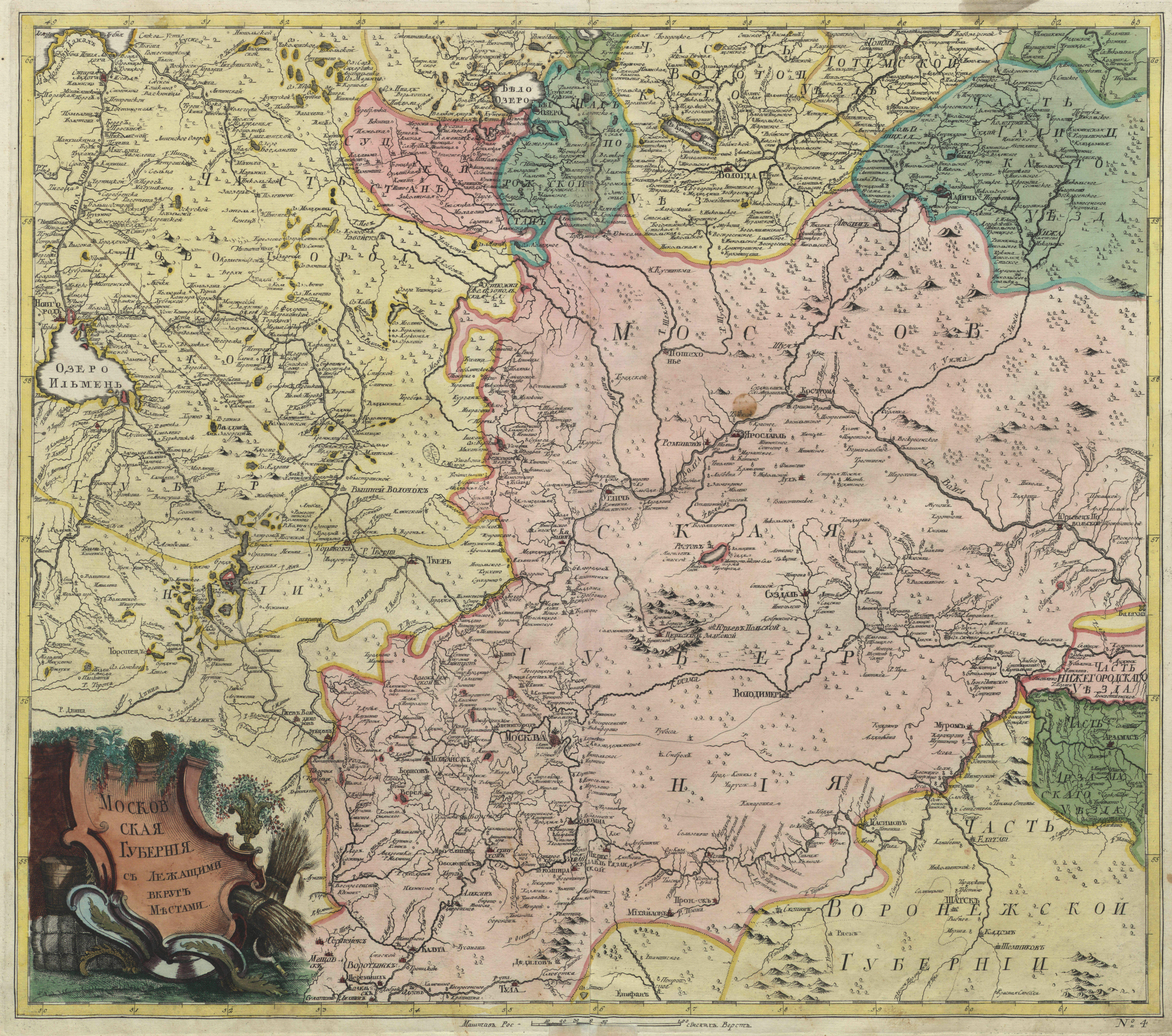 First official geographic atlas of the Russian Empire (1745). Map of Moscow governorate and parts of nearest provinces. Hand-coloured copper engraving.